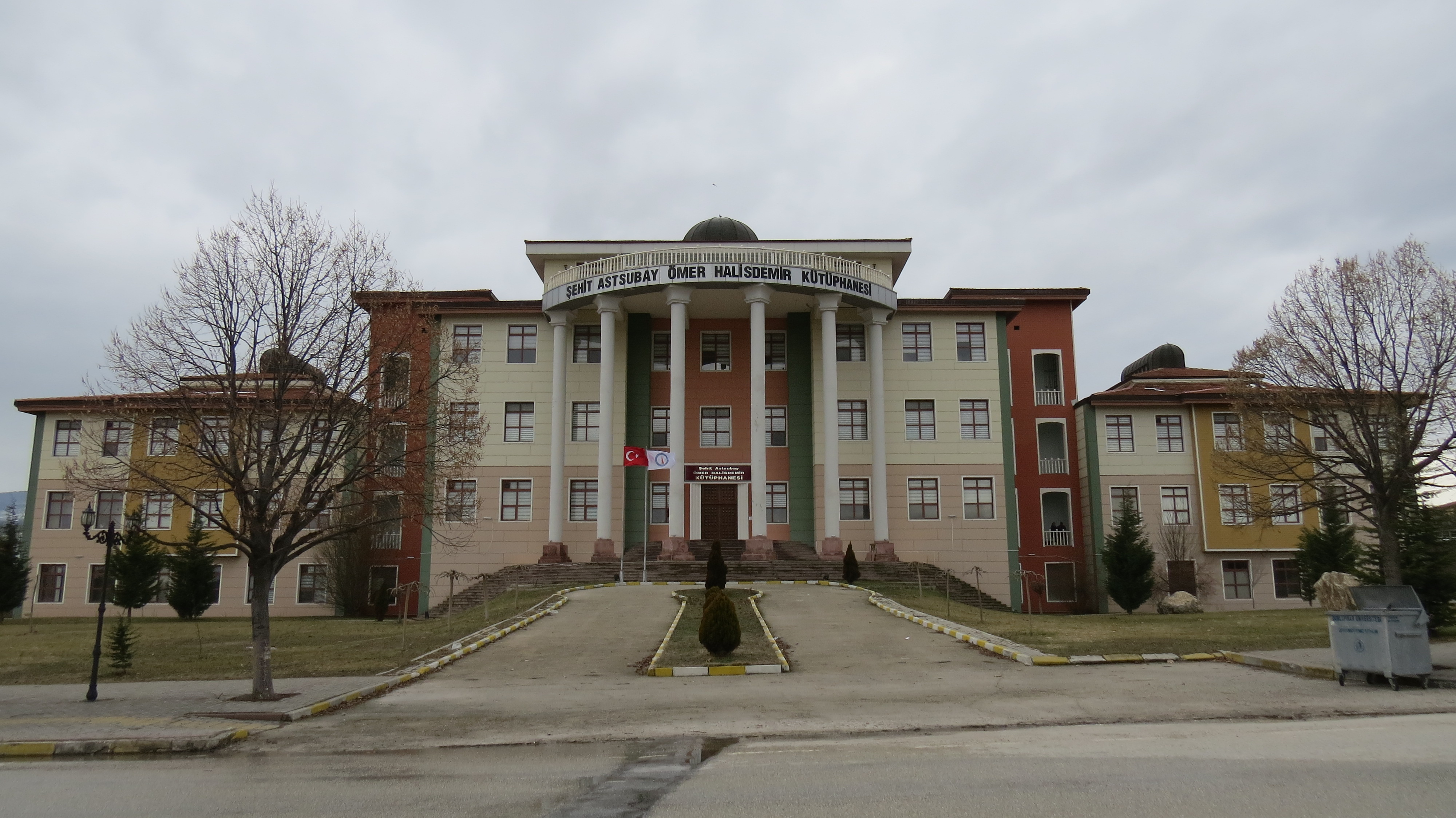 Şehit Astsubay Ömer Halisdemir Library